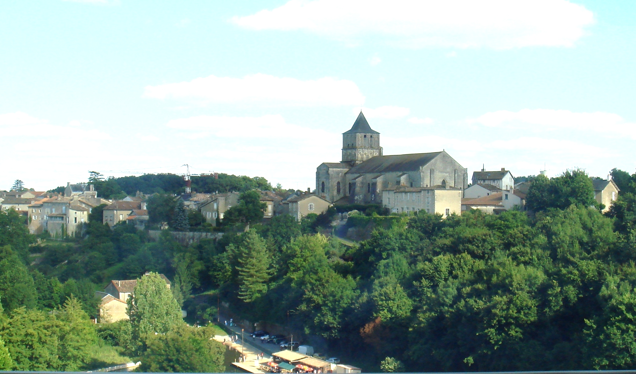 Village of Lusignan